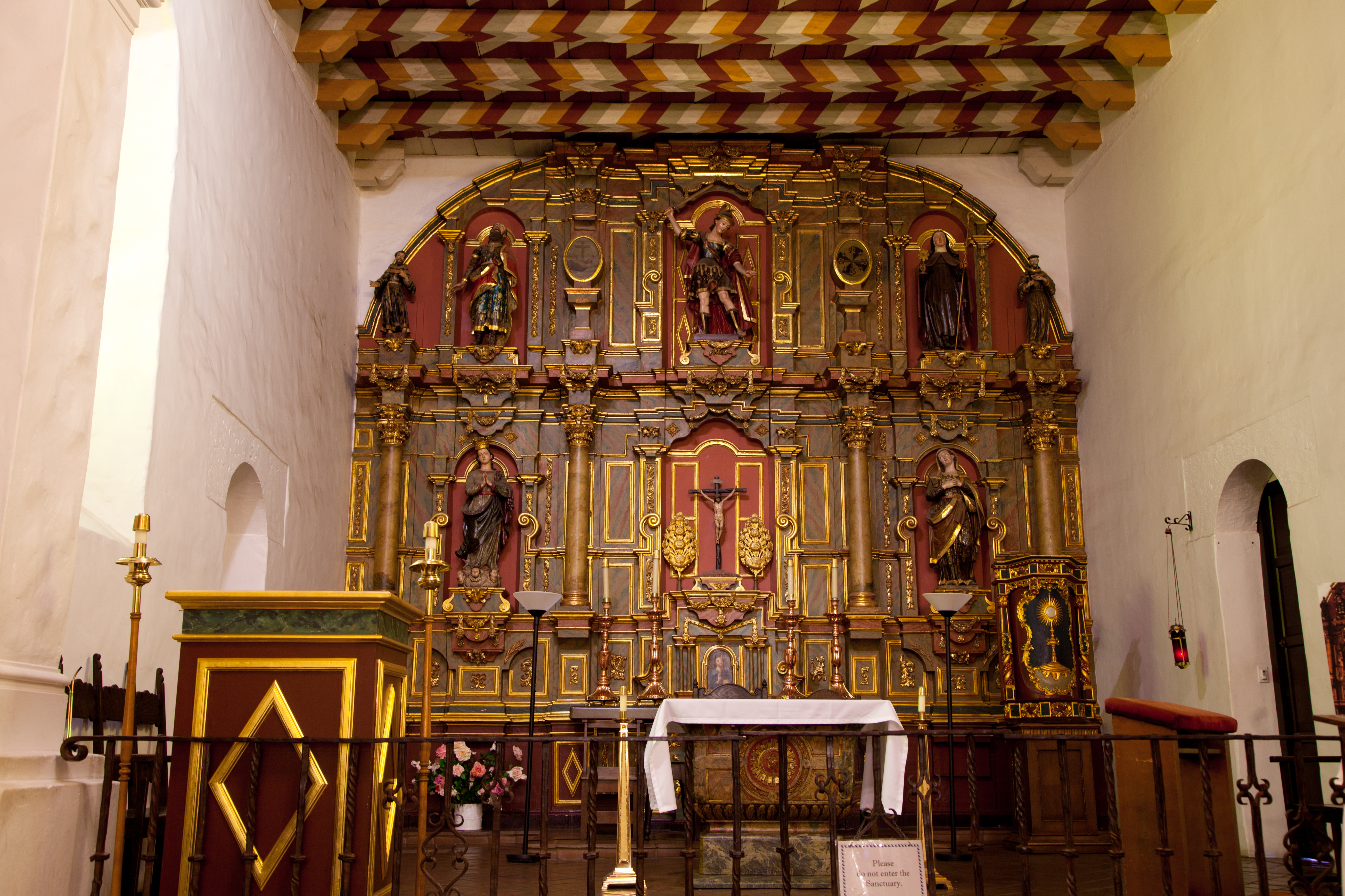 Mission Dolores